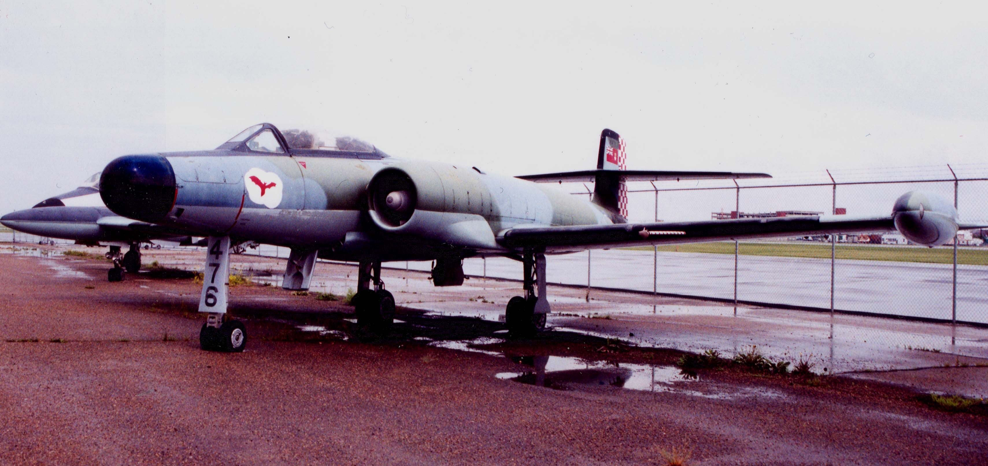 Avro Canada CF-100 "Canuck" interceptor on display at the Alberta Aviation Museum.